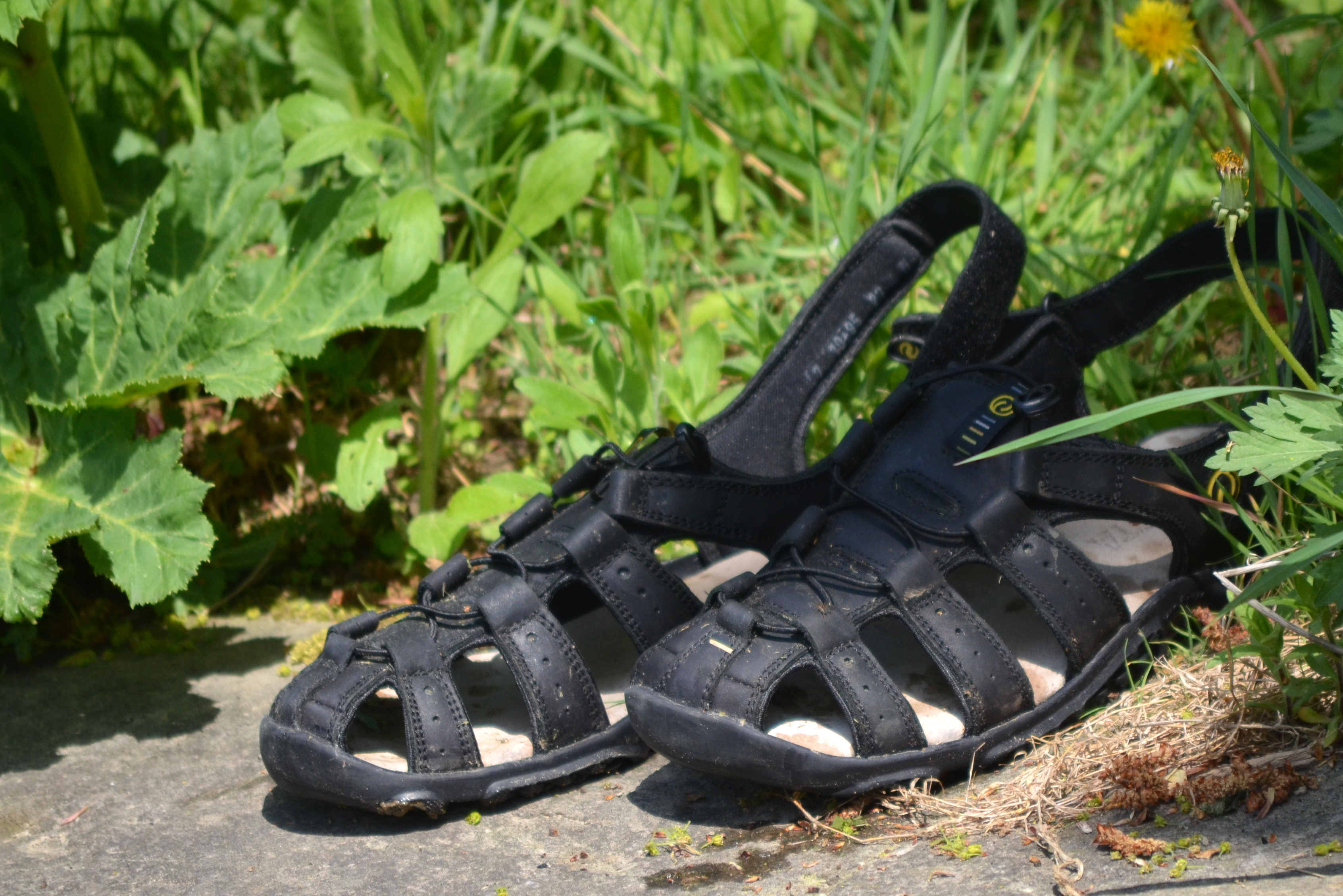 Herren-Leder-Trekkingsandalen